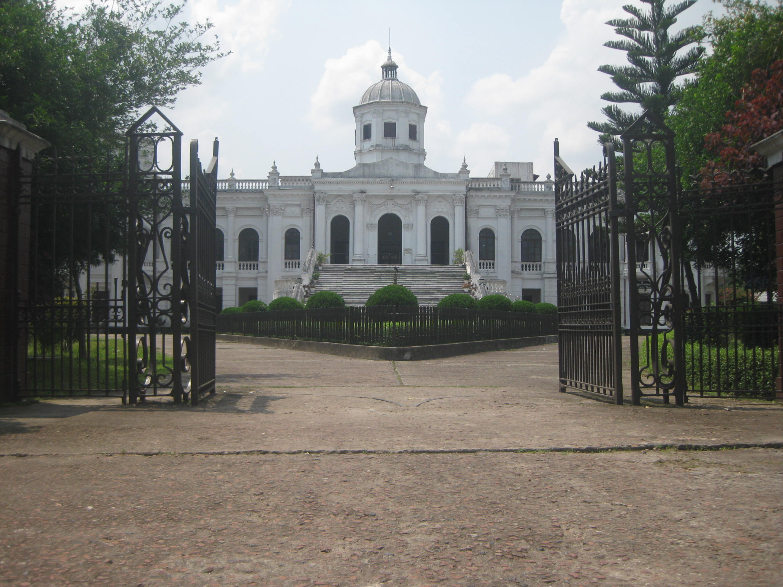 Tajhat Palace